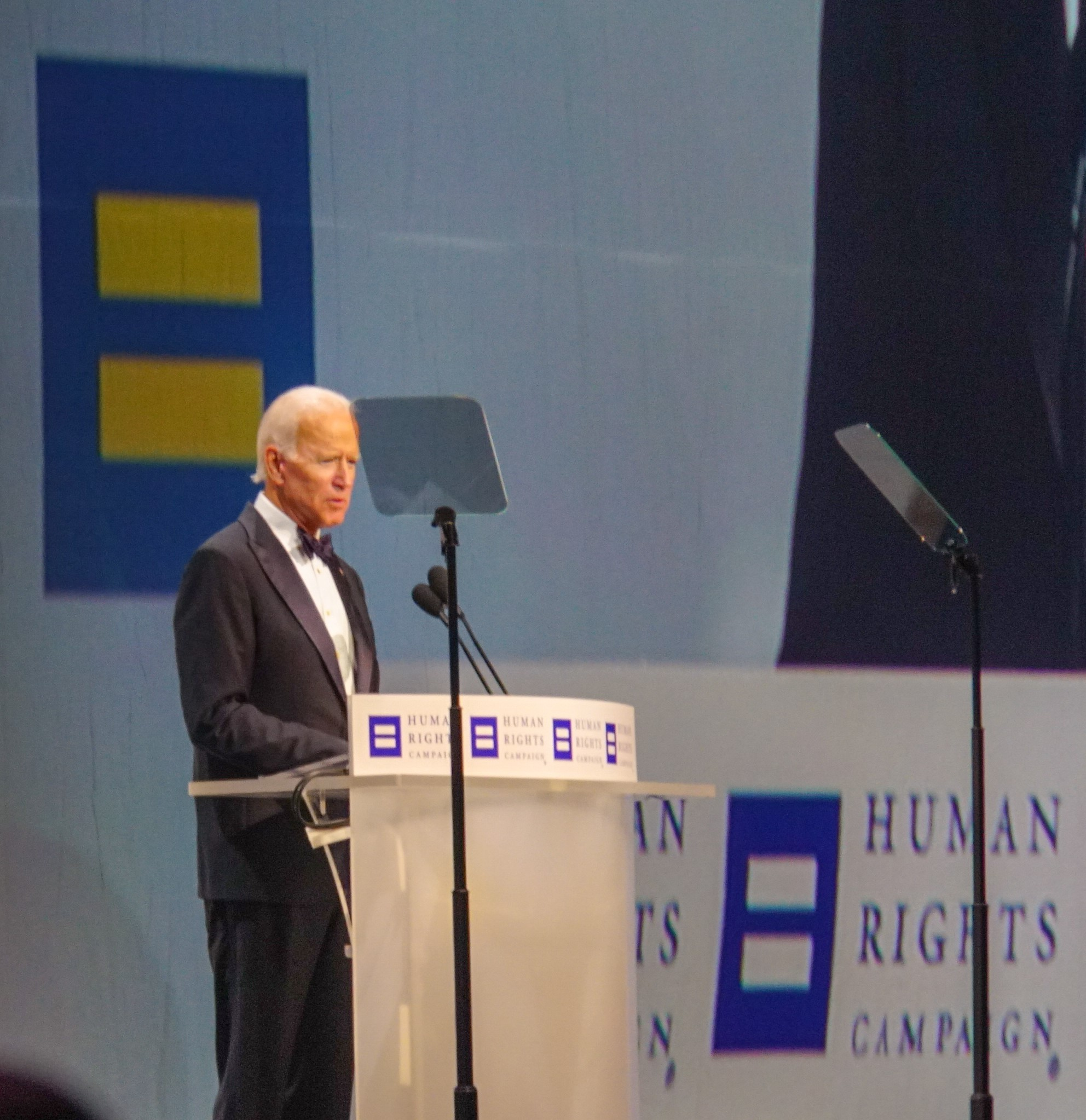 Joe Biden at the Human Rights Campaign National Dinner, Washington, DC USA, September 15, 2018